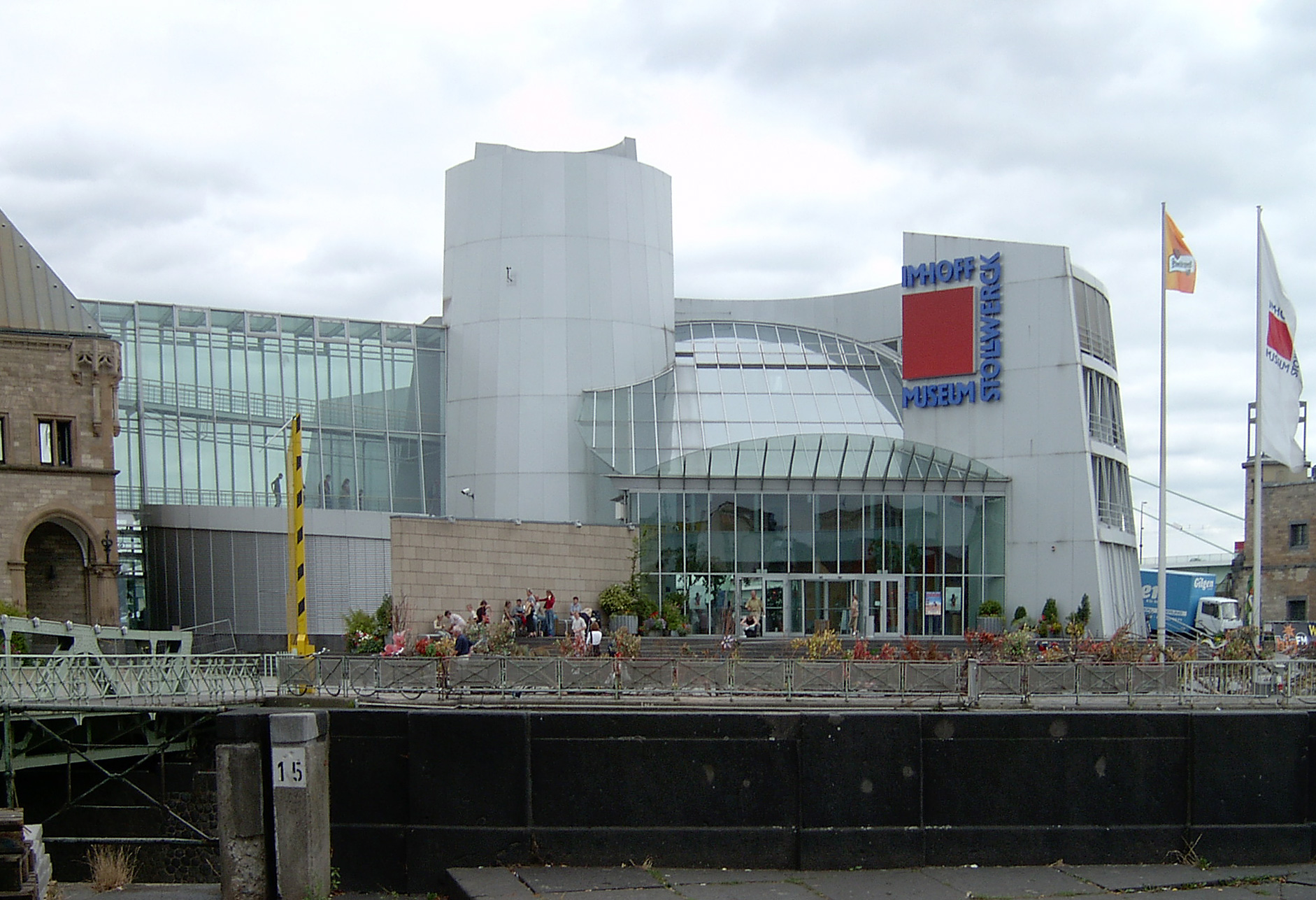 Stollwerk-Imhoff chocolate museum, Cologne, Germany.